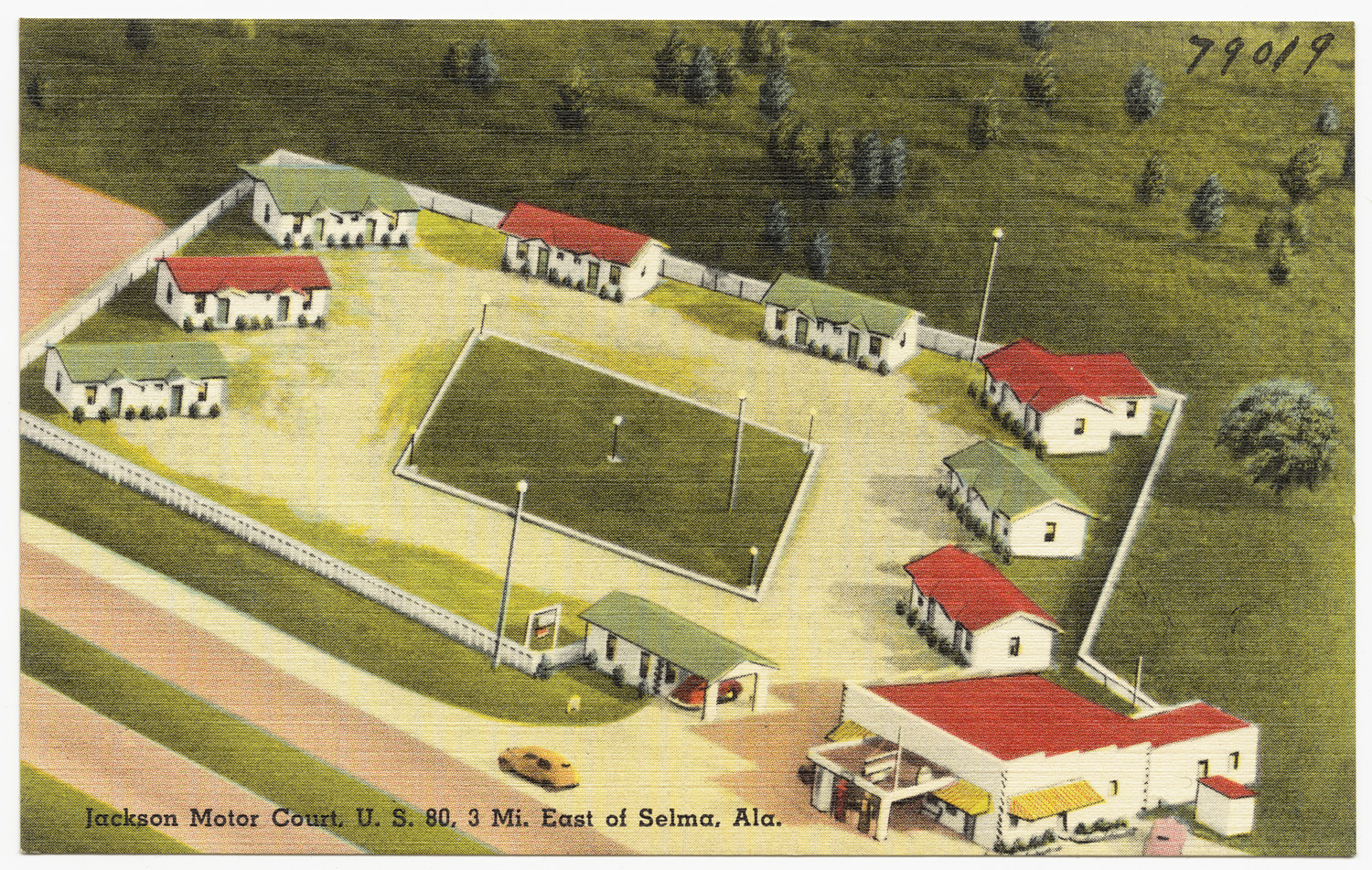 File name: 06_10_012911 Title: Jackson Motor Court, U.S. 80, 3 mi. east of Selma, Ala. Created/Published: Date issued: 1930 - 1945 (approximate) Physical description: 1 print (postcard) : linen texture, color ; 3 1/2 x 5 1/2 in. Genre: Postcards Subject: Motels Notes: Title from item. Collection: The Tichnor Brothers Collection Location: Boston Public Library, Print Department Rights: No known restrictions